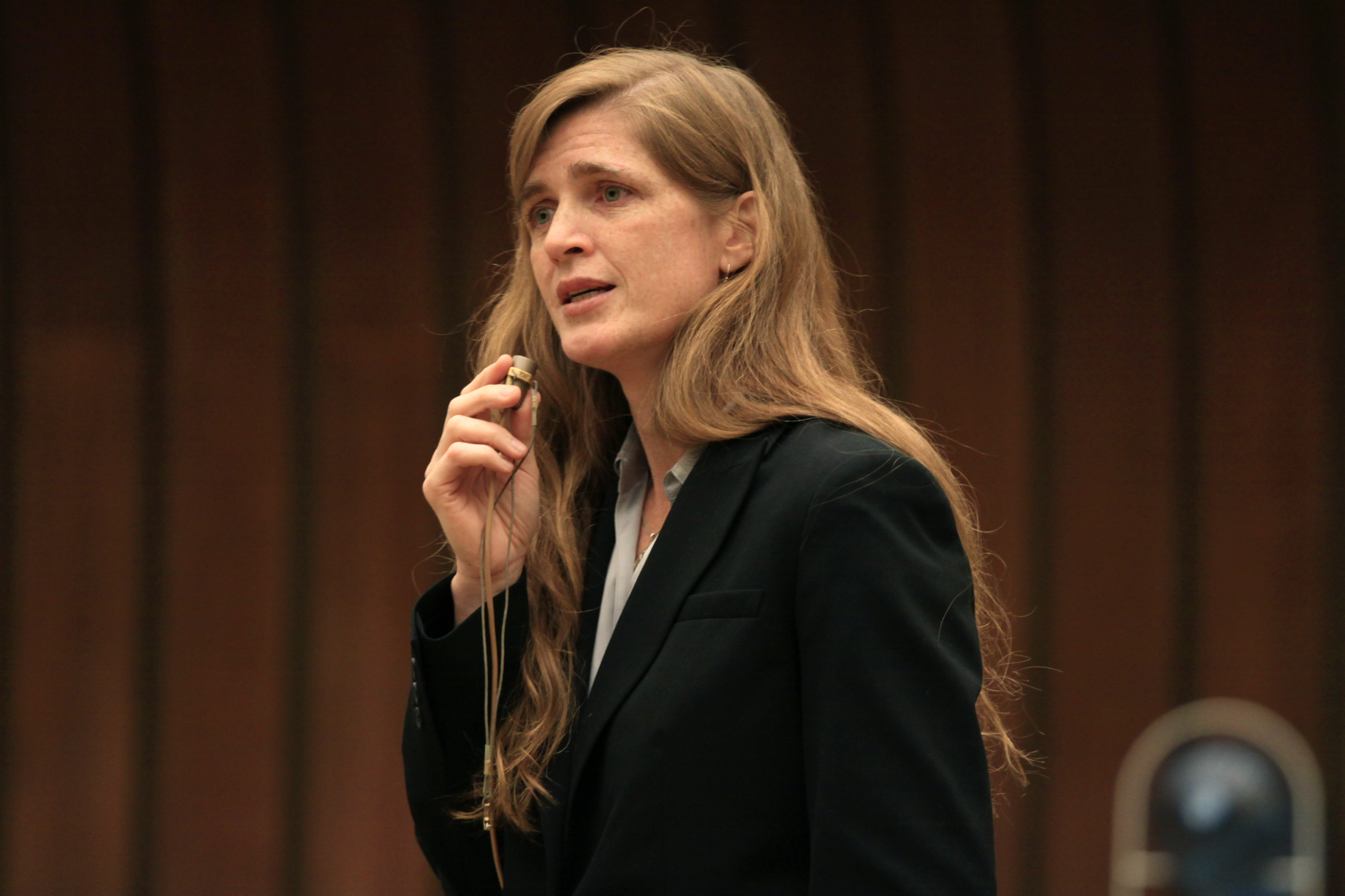 Samantha Power, Director of Multilateral Affairs at the National Security Council, speaking about Sergio Vieira de Mello at an event at the United Nations Office at Geneva on June 1, 2010. Power is the author of "Chasing the Flame: Sergio Vieira de Mello and the Fight to Save the World".